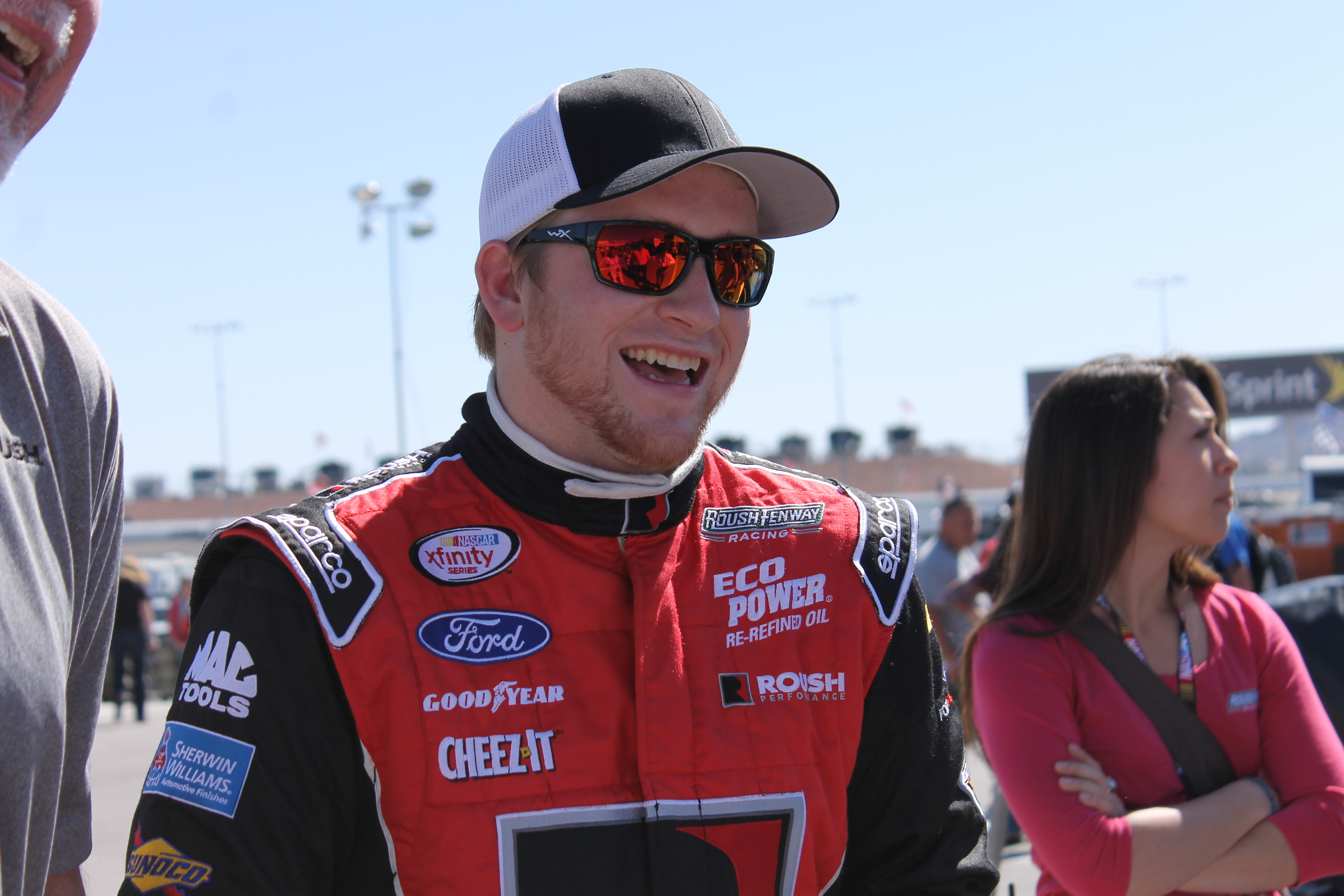 Chris Buescher at Las Vegas Motor Speedway - March 2015